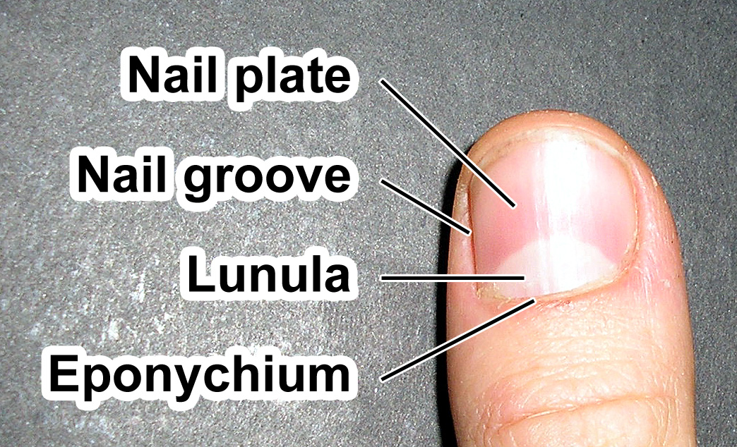 Basic nail anatomy